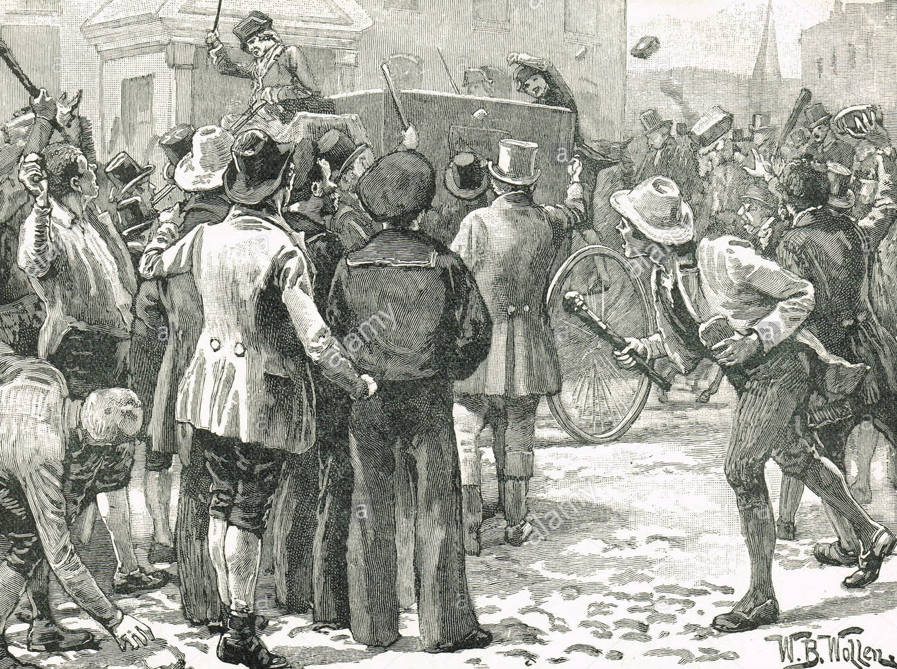 Attack on Sir Charles Wetherell at Bristol, 29 October 1831 by William Barnes Wollen (1857–1936) from Cassell's Century Edition History of England, pub circa 1901